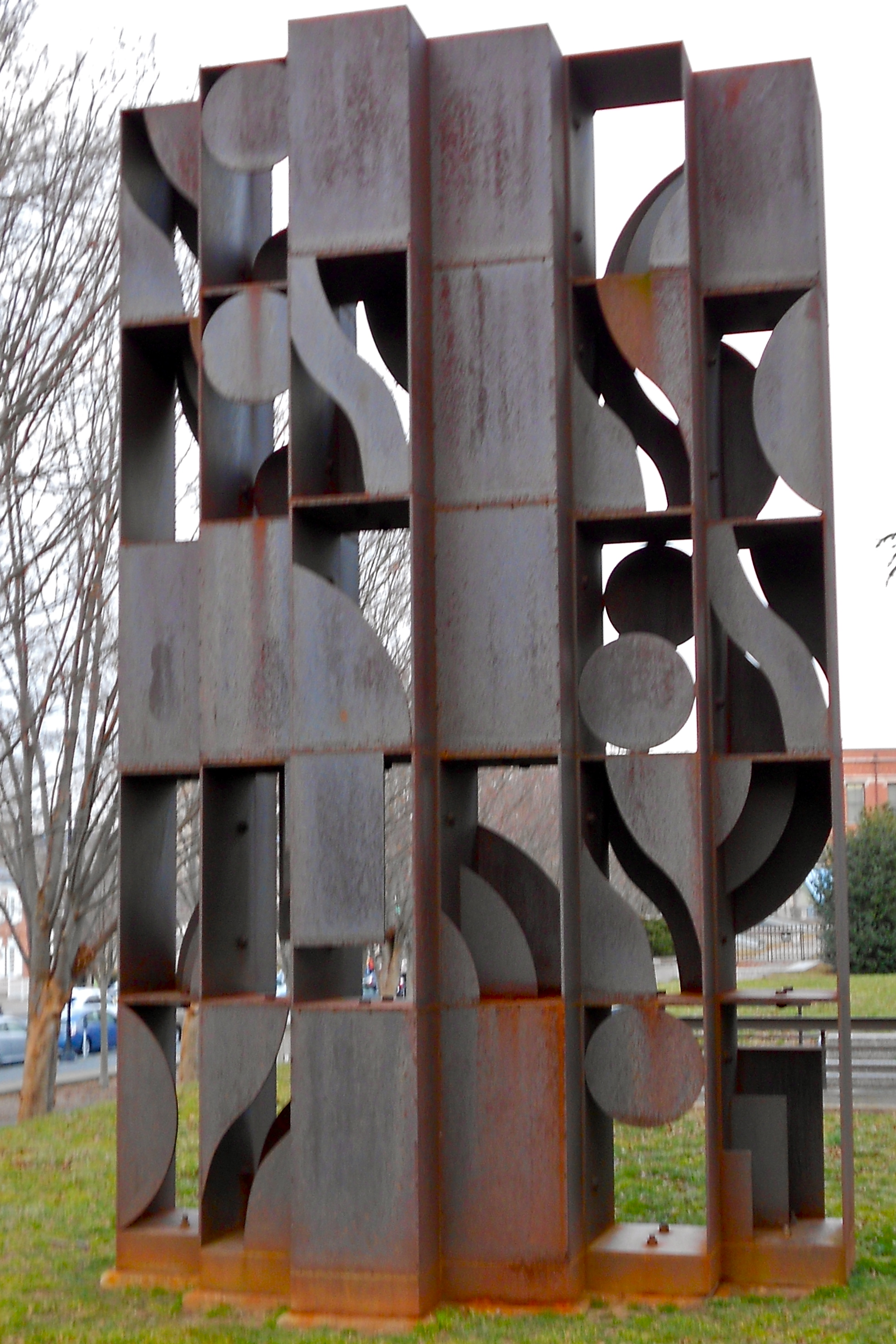 Photo of "Atmosphere and Environment X" by Louise Nevelson. Located in Princeton, New Jersey on Nassau Street, on Princeton University Campus. This is the view looking to the north west. The on site plaque states "Louise Nevelson 1900-1988 Atmosphere and Environment X, 1969 The John B. Putnam Jr. '45 Memorial Collection" No visible copyright notice, so the sculpture is in the public domain.